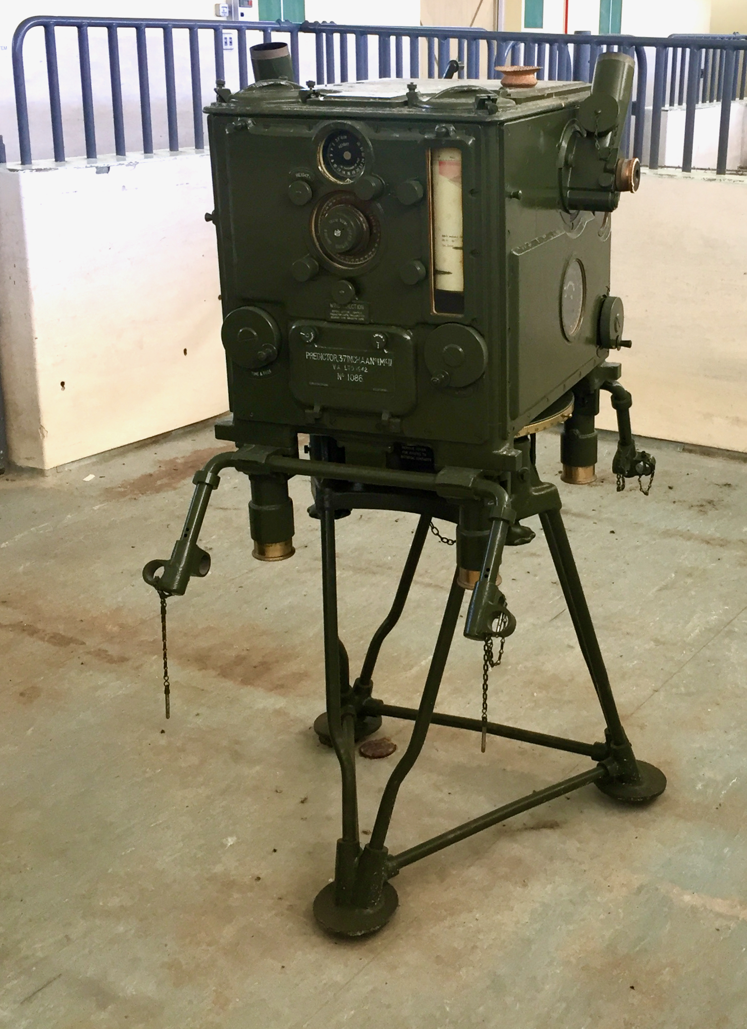 This is a photograph of an anti-aircraft analogue computer, situated in the Matiu/Somes Quarantine Station, Wellington Harbour, New Zealand. Plate inscribed "Predictor 3.7 inch AA No. 1 Mk III VA LTD 1942 no. 1086"